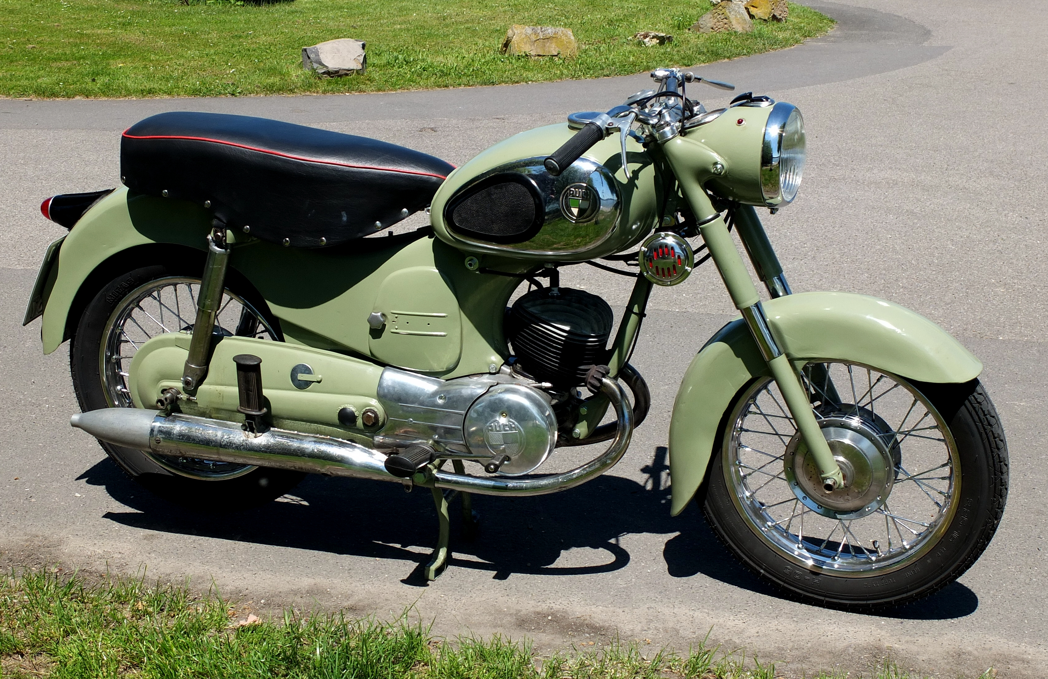 Puch 125 SV motorbike, built 1956.